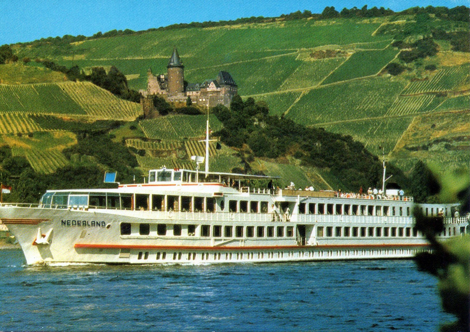 River cruise ship Nederland